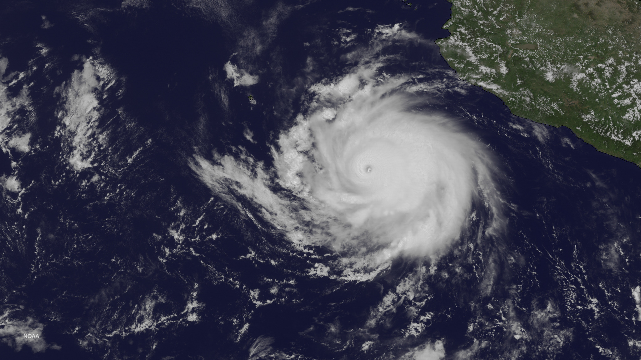 Hurricane Cristina at Category 4 intensity on June 12